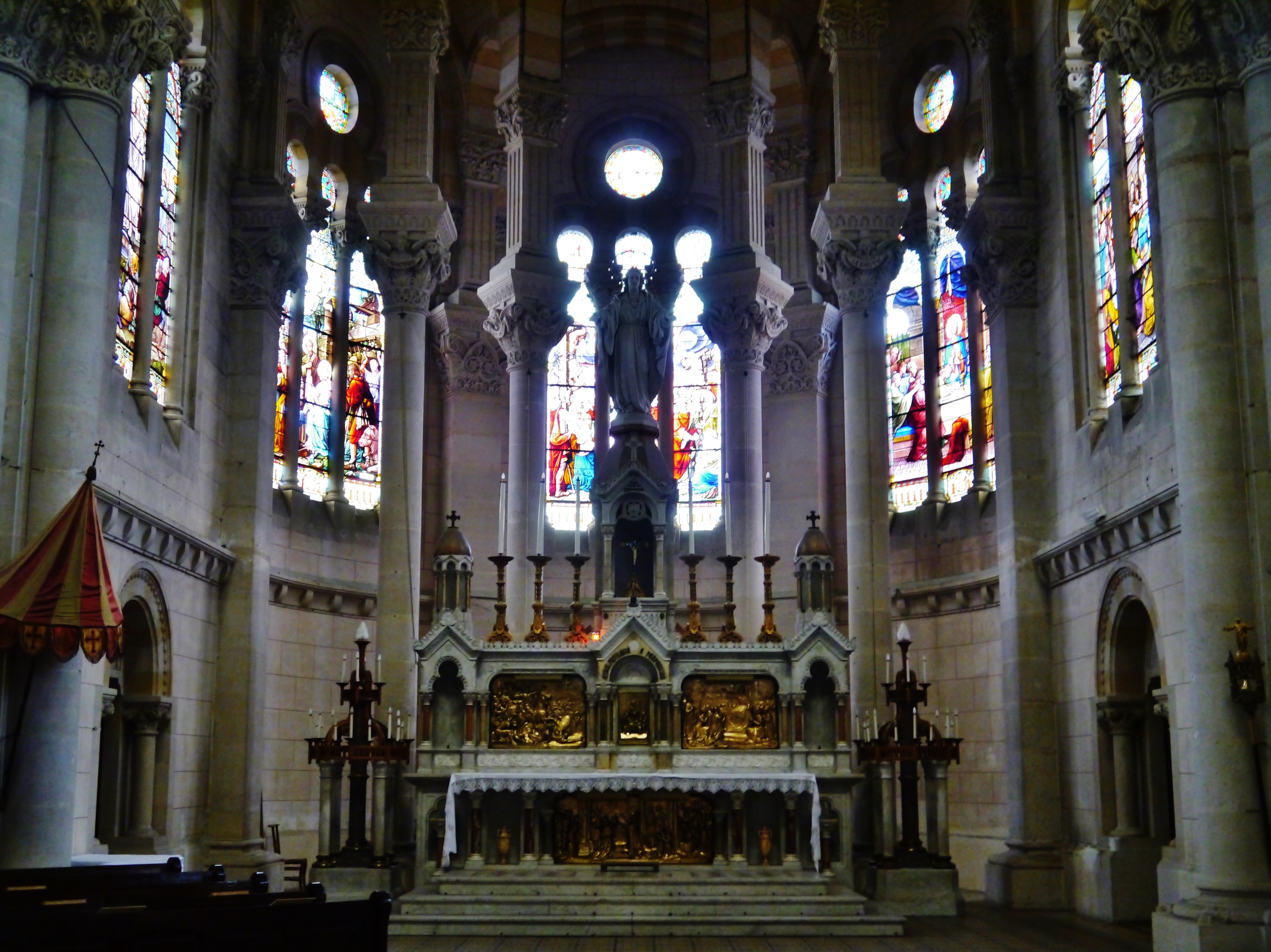 Higfh Altar of the Basilica of the Sacred Heart, Nancy, Département of Meurthe-et-Moselle, Region of Lorraine (now Grand East), France